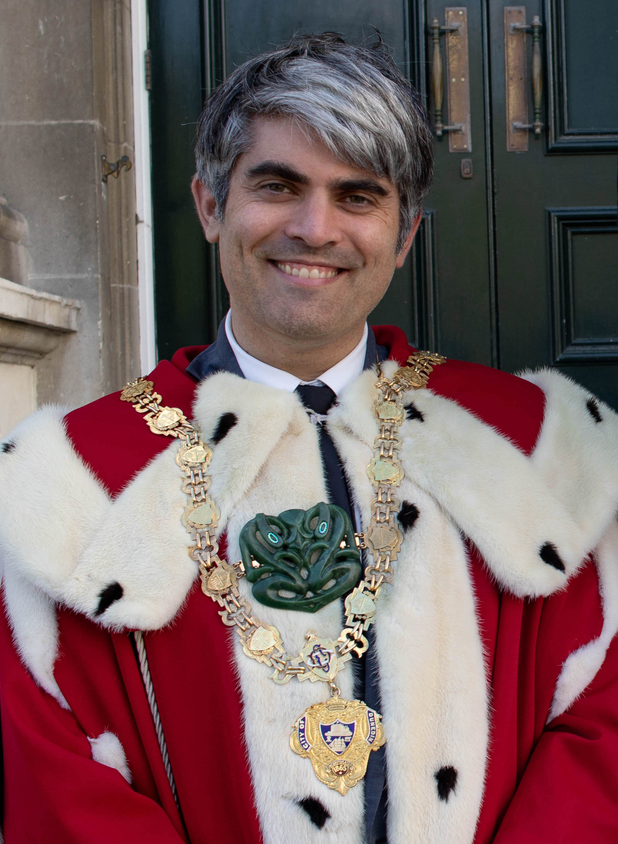 Aaron Hawkins outside the Municipal Chambers in Dunedin, New Zealand